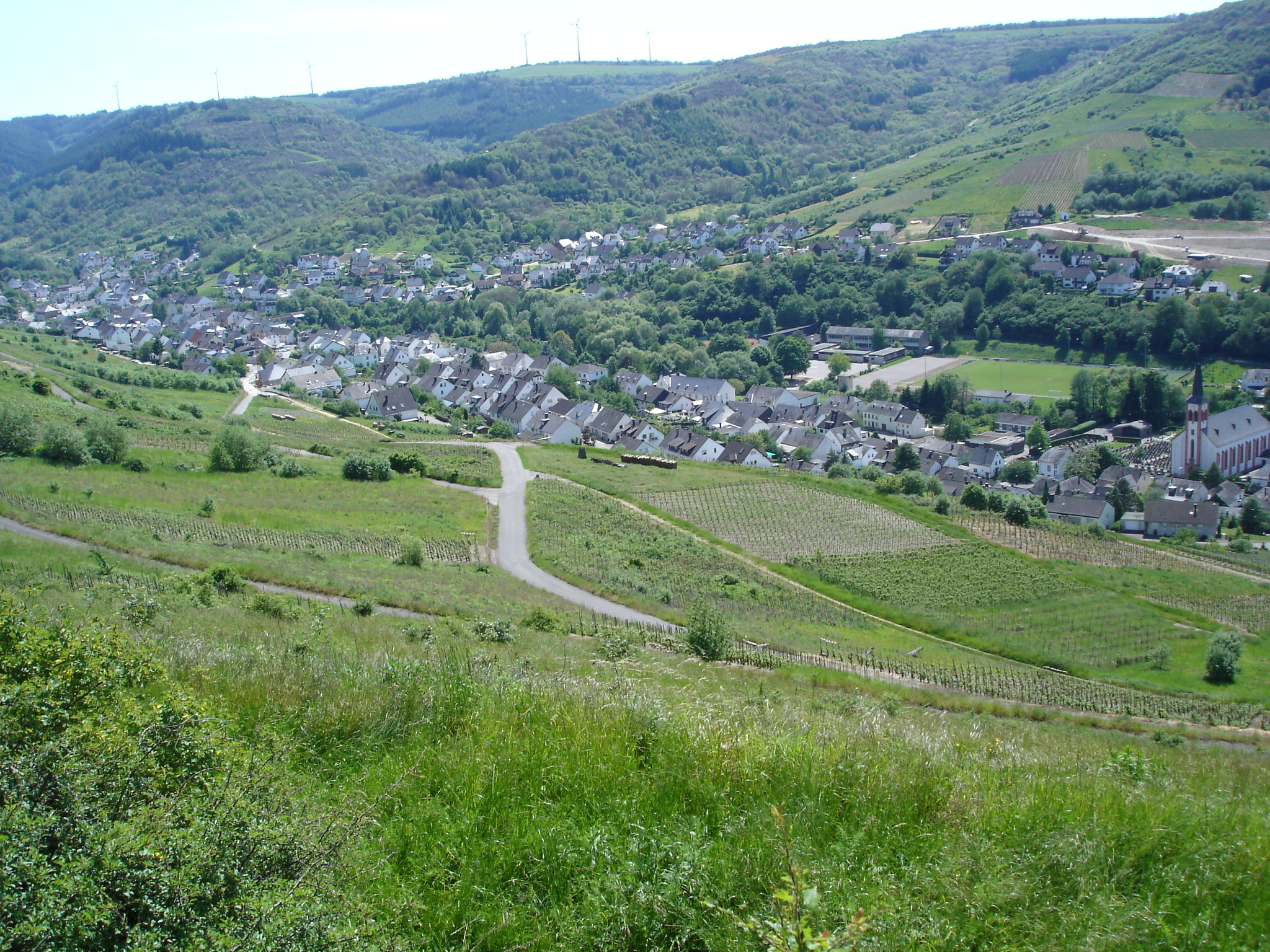 A view of Fell village